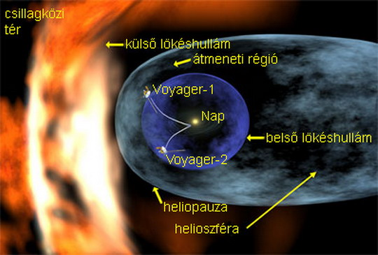 This image shows the locations of Voyagers 1 and 2. Voyager 1 is traveling a lot and has crossed into the heliosheath, the region where interstellar gas and solar wind start to mix